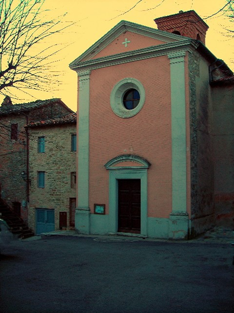 church of st. Andrew and st. Blaise, Civitella Benazzone, Perugia, Umbria, Italia